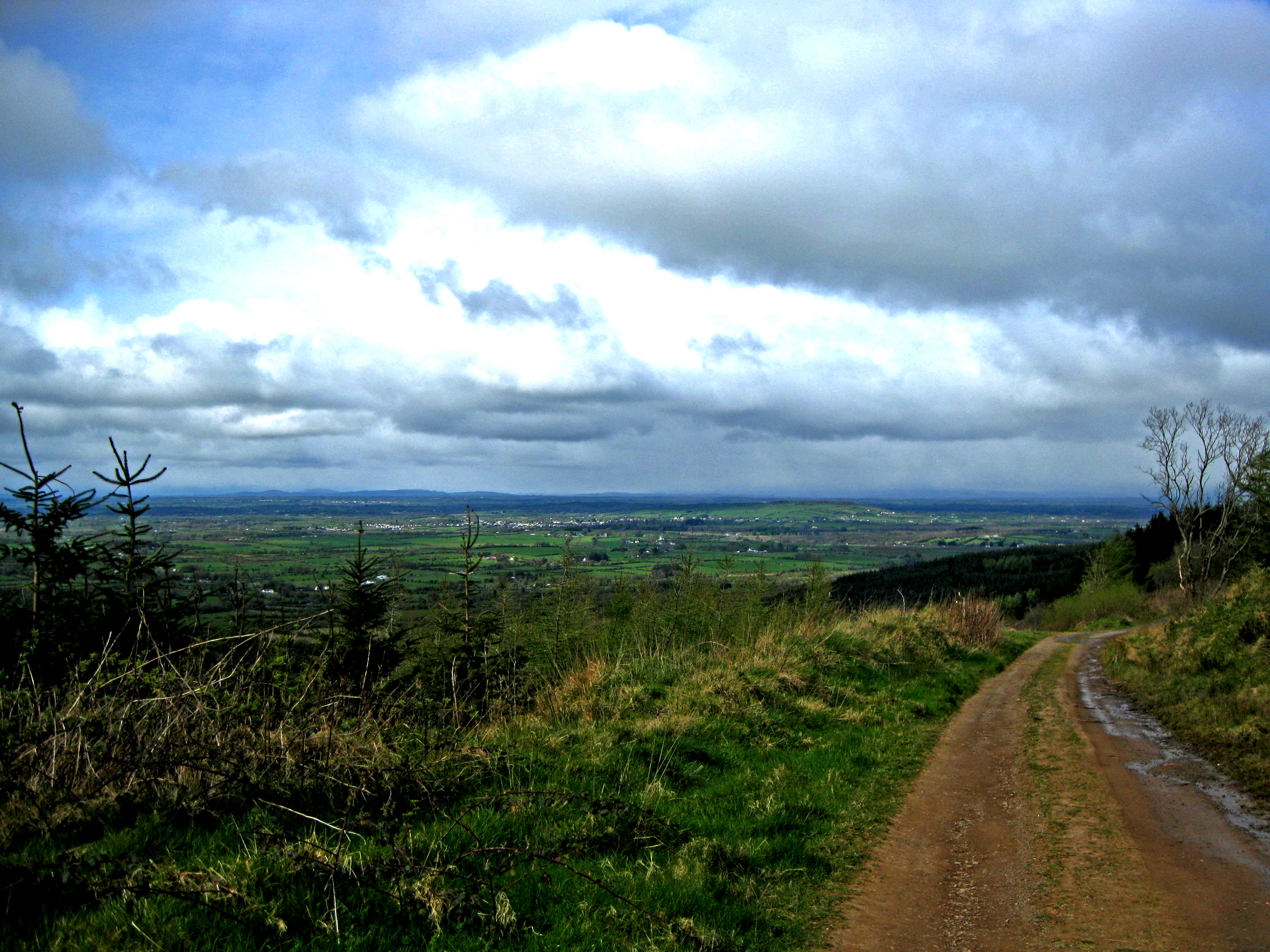 Western View